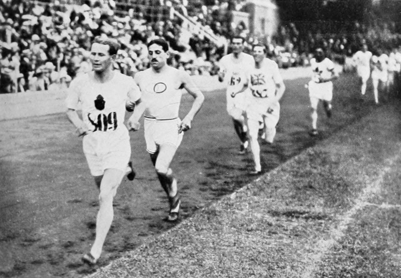 During the men's 5000 metre final at the 1912 Summer Olympics. The upcoming winner Hannes Kolehmainen in the lead with Jean Bouin behind.